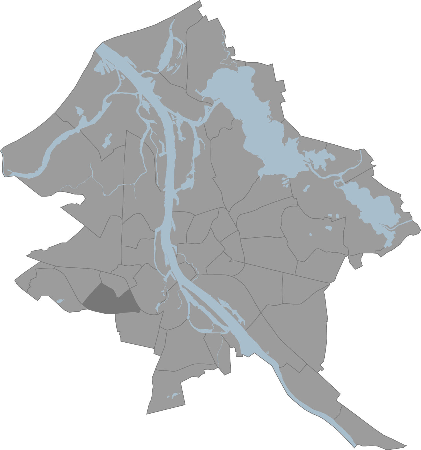 A map of Riga, Latvia with the eponymous commune highlighted